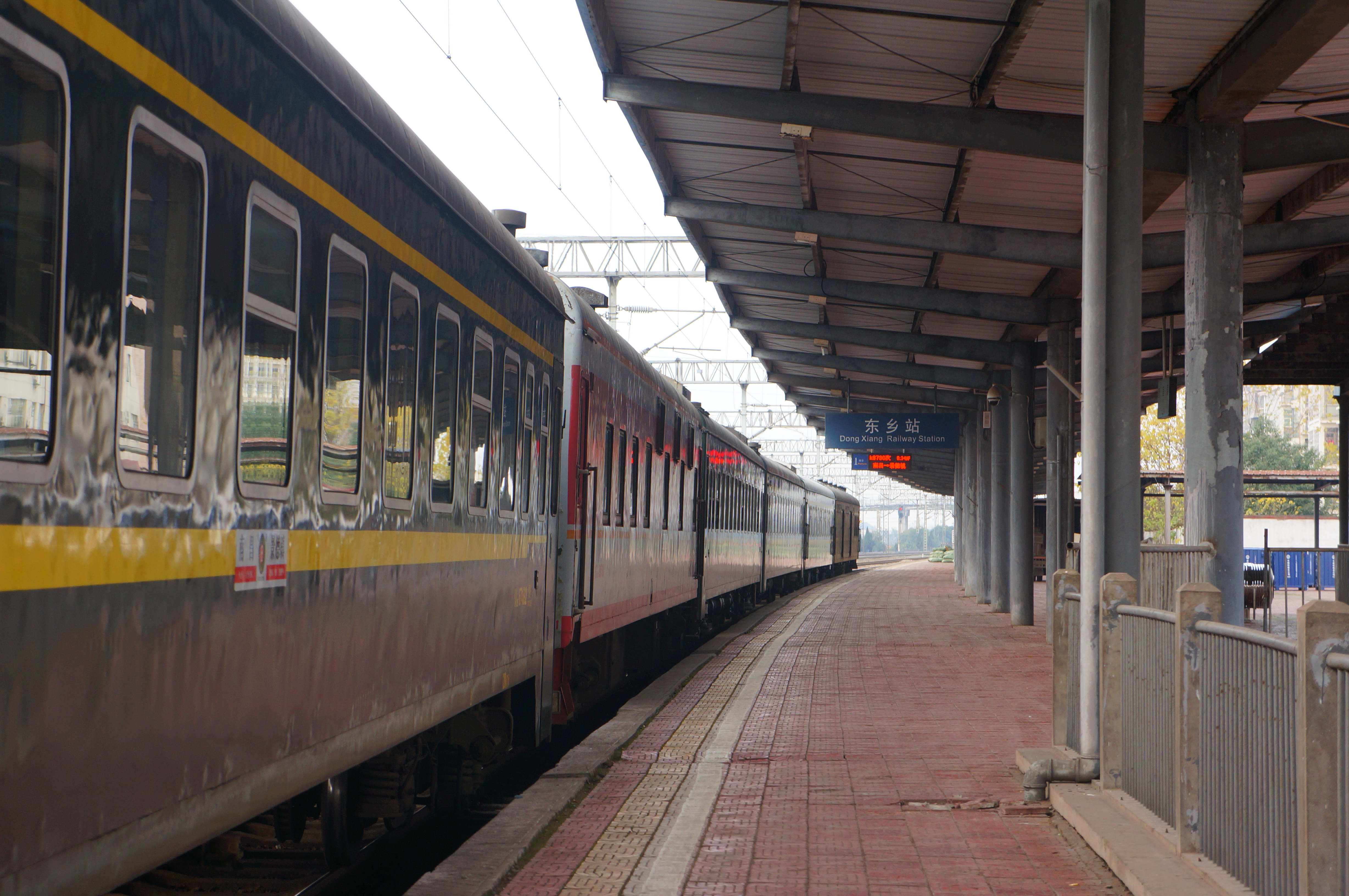 201612 Platform 1 of Dongxiang Station